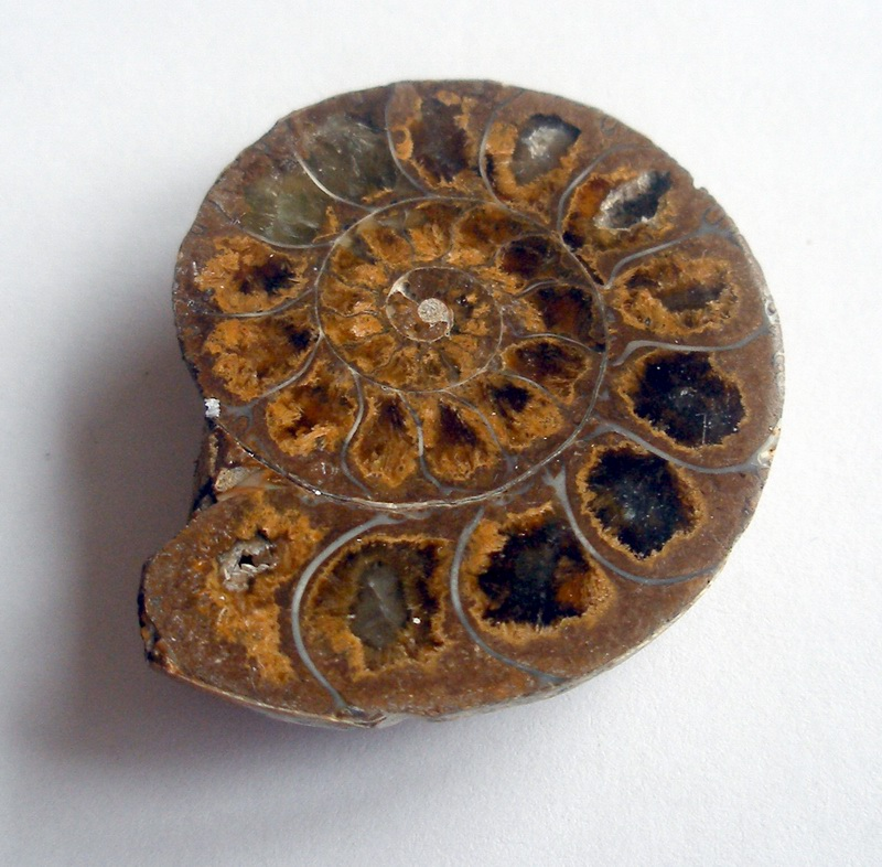 An ammonite nicely filled with quartz, 70-150 million years old. Cleoniceras cleon species.